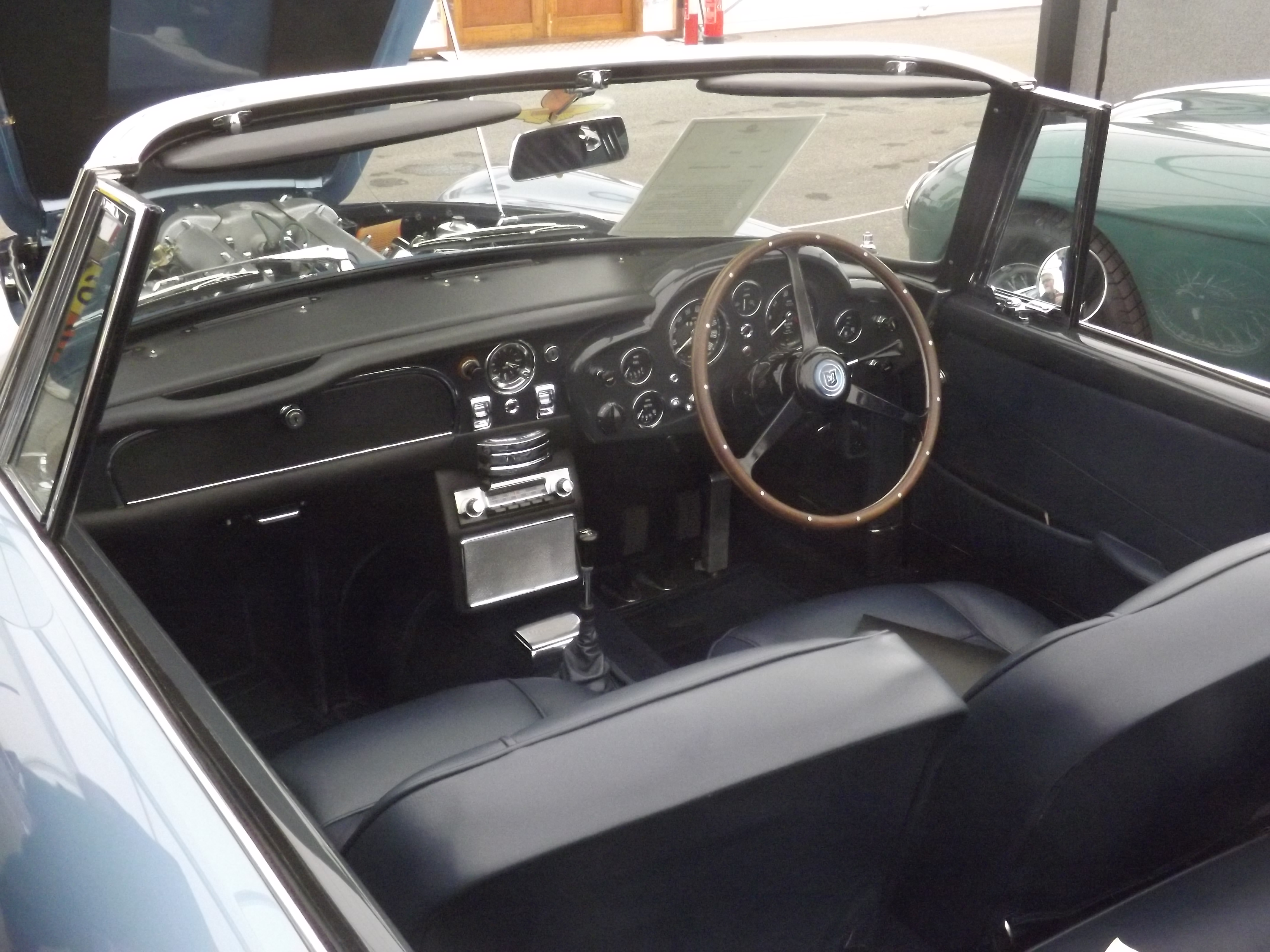 Bristol Classic Car Show, Royal Bath & West Showground, 13th June 2015